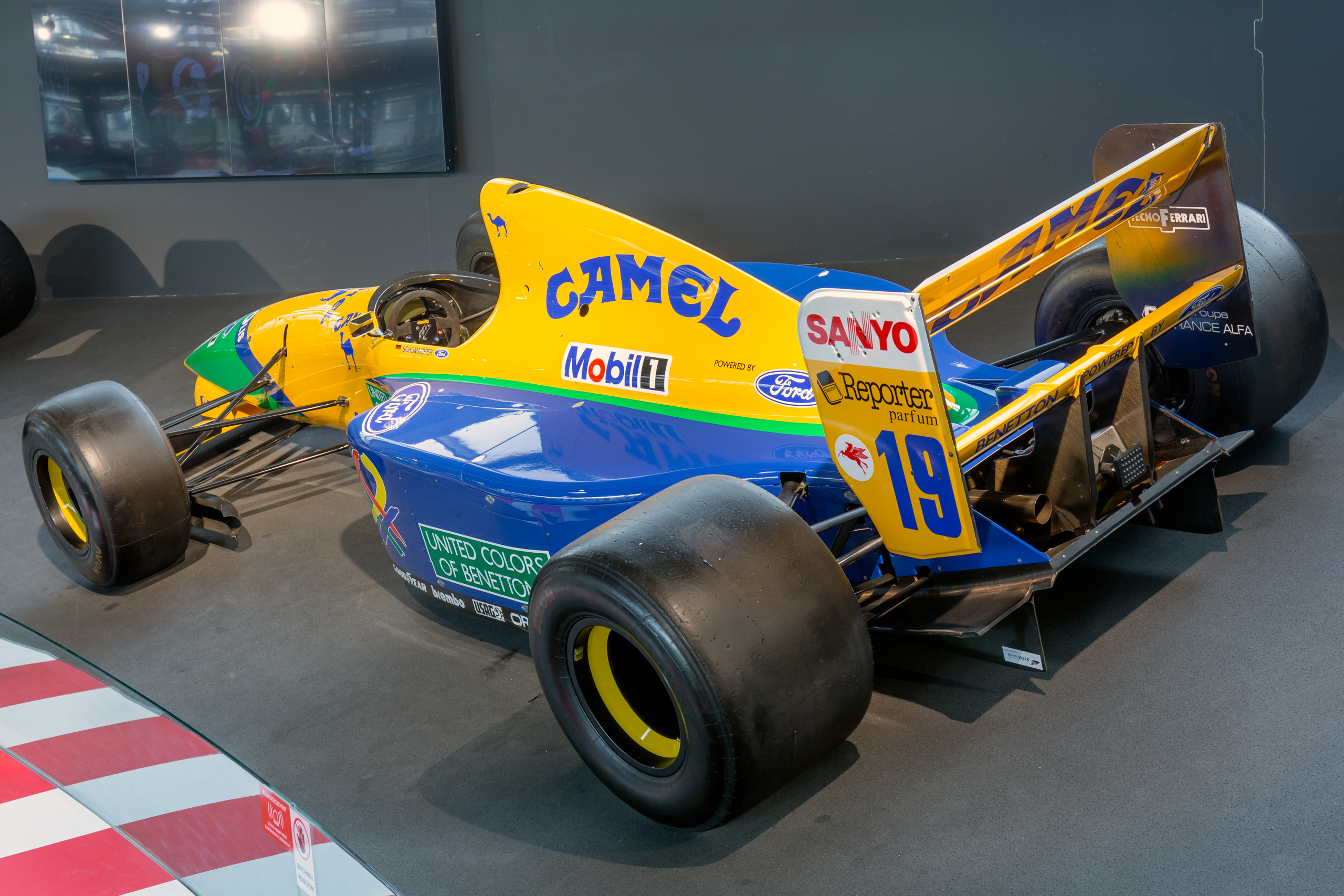 Michael Schumacher Private Collection: Benetton B191B (chassis 06) of Michael Schumacher